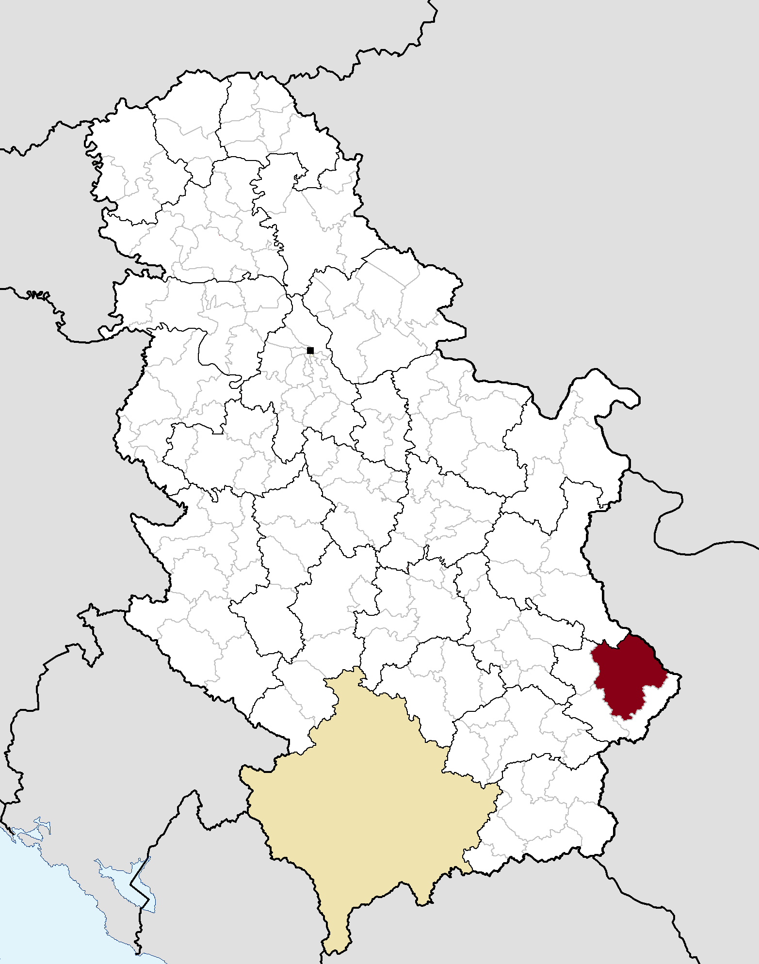 Municipal location in Serbia